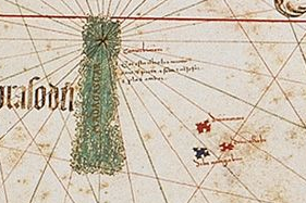 The most important manuscript map surviving from the early Age of Discovery, the Cantino World Map is named for Alberto Cantino, an Italian diplomatic agent in Lisbon who obtained it in 1502 for the Duke of Ferrara. It incorporates extensive new geographical information based on four series of voyages: Columbus to the Caribbean, Pedro Álvarez Cabral to Brazil, Vasco de Gama followed by Cabral to eastern Africa and India, and the brothers Corte-Real to Greenland and Newfoundland. Except for Columbus, all had sailed under the Portuguese flag. This extract shows Madagascar and the Mascarene Islands.